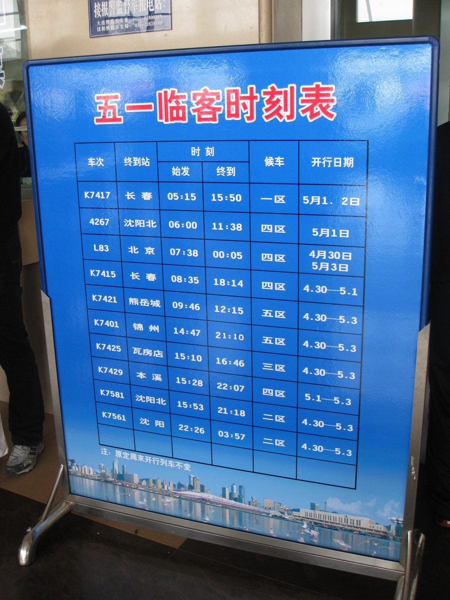 temporary schedule for the vacation of the 1st May in Dalian Railway Station